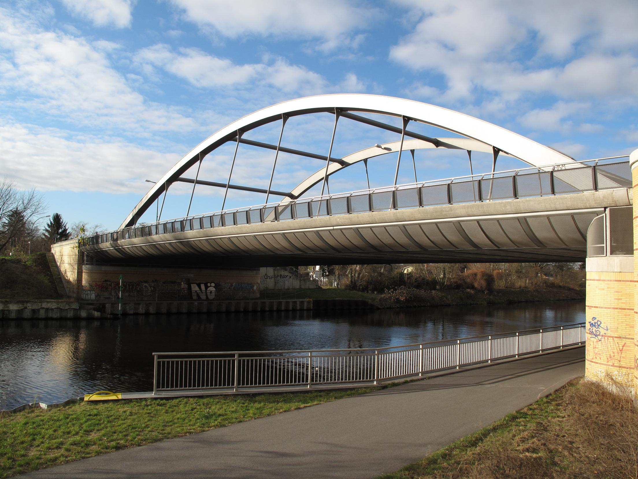 The Ernst-Keller-Brücke in Berlin-Britz is a street bridge of the Johannisthaler Chaussee crossing the Teltowkanal. The steel arch bridge was new built in 2004.